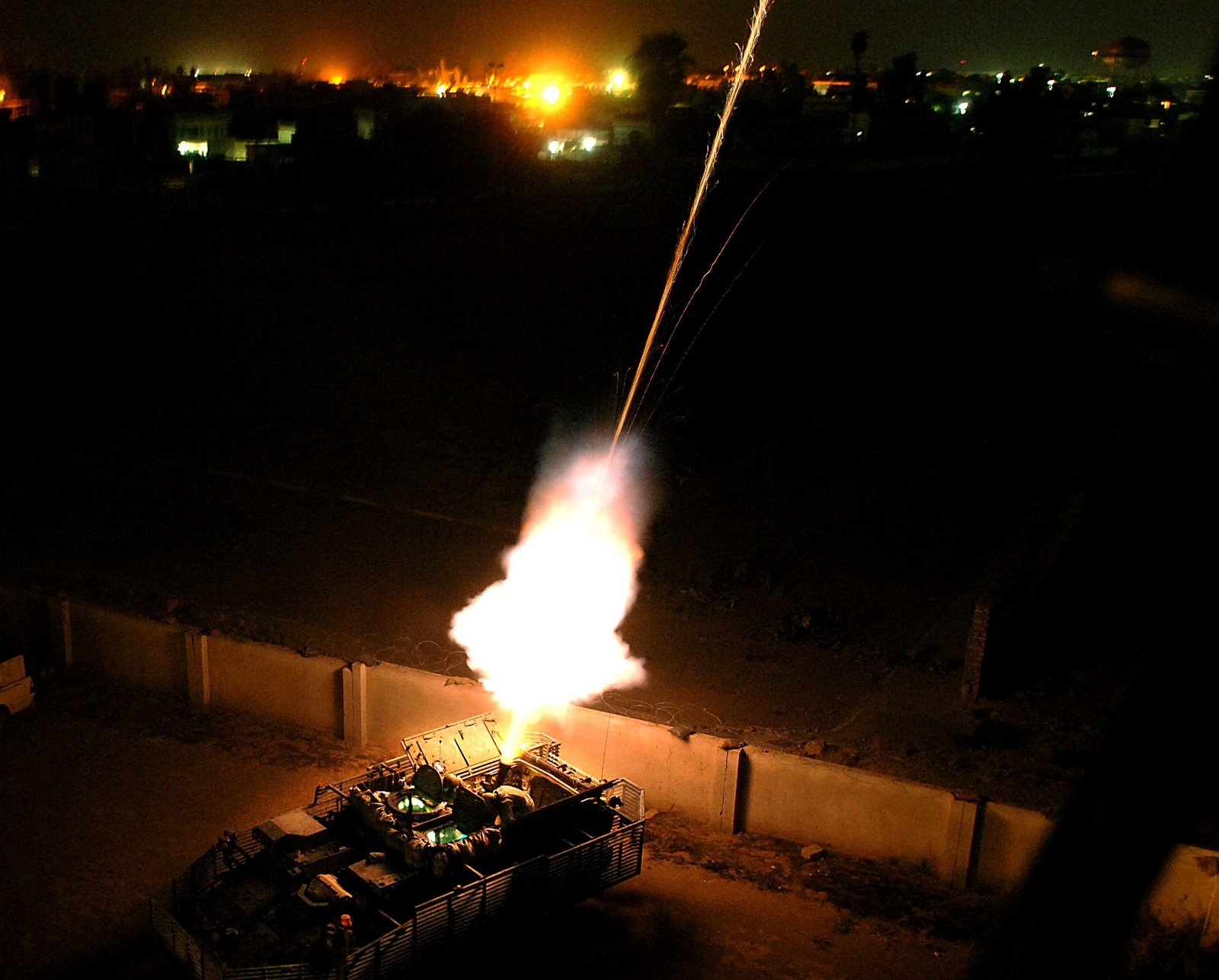 a stryker firing a 120mm illumonation during OIF